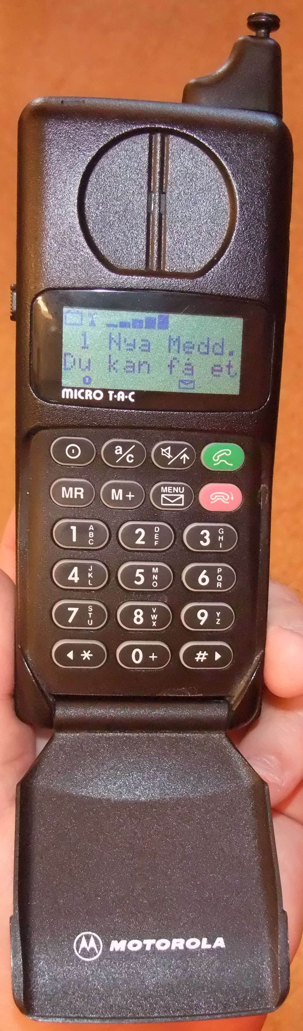 A picture of a Motorola MicroTAC 5200 International showing "1 new message" in Swedish